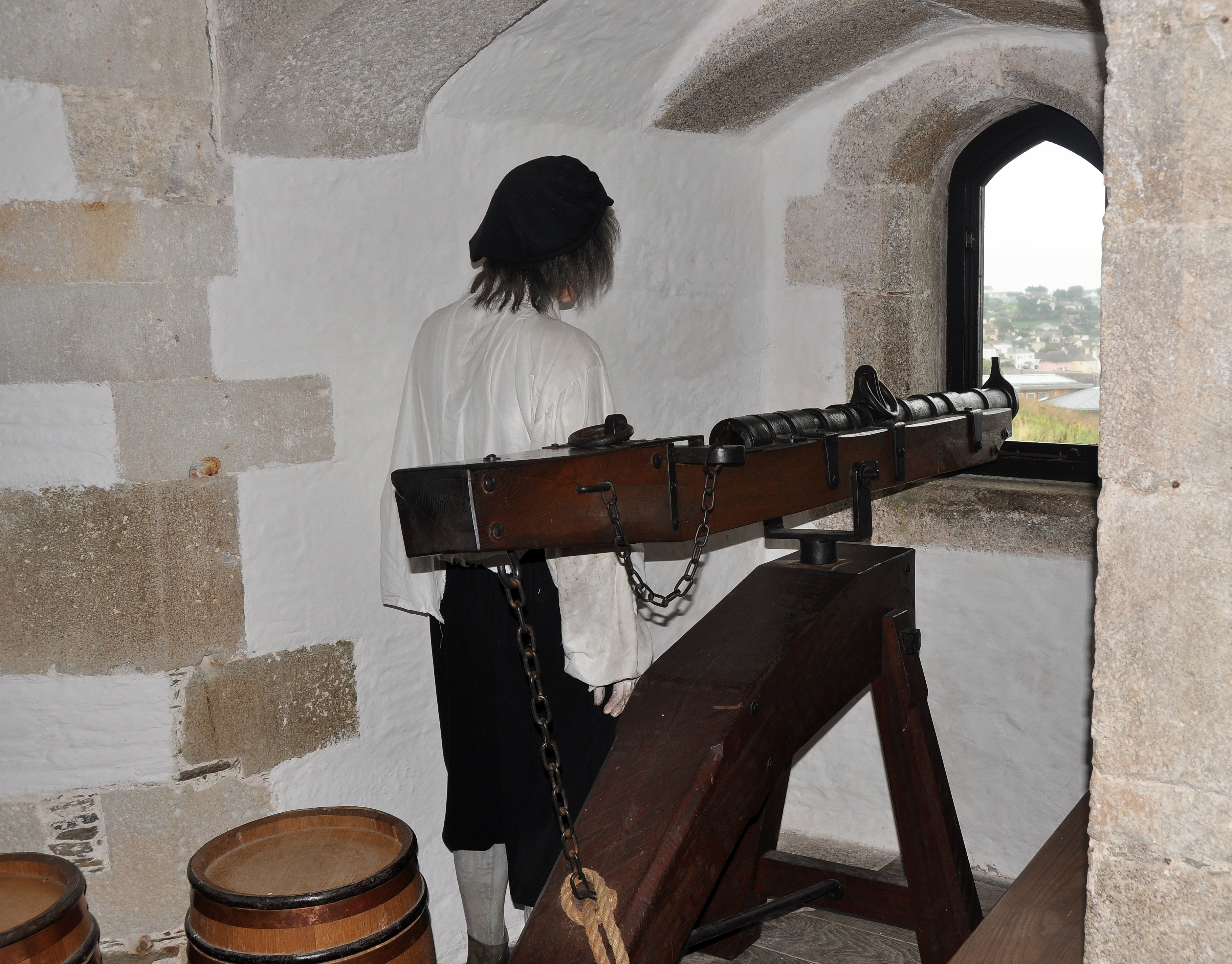 A tudor gun at St Mawes Castle, Cornwall.